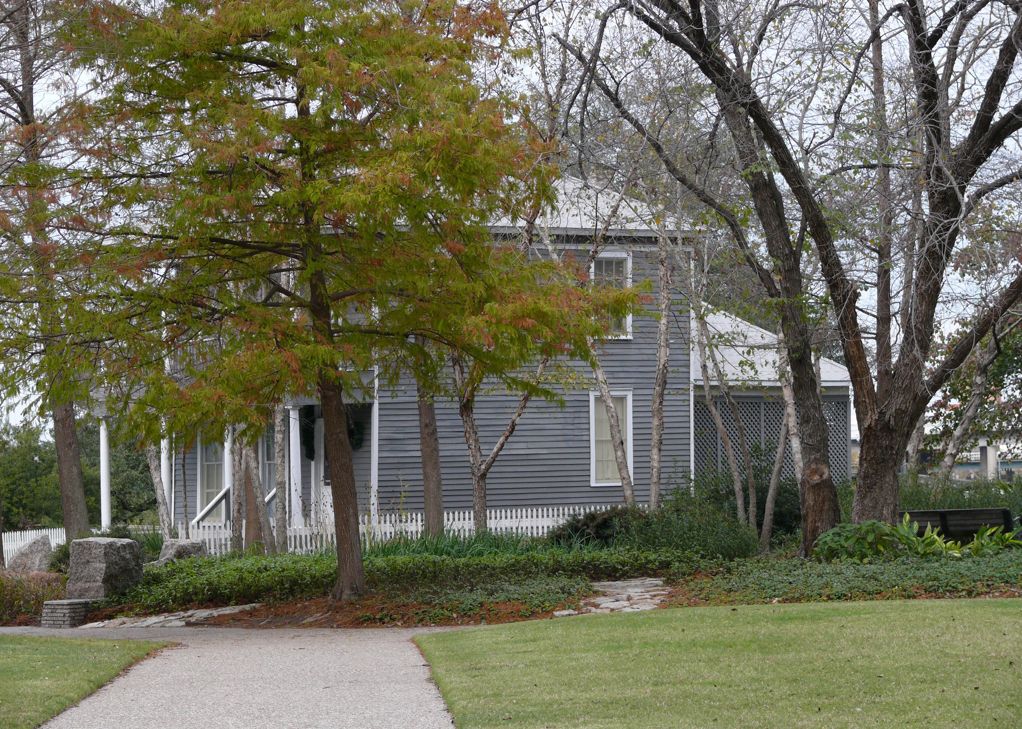 The 1870 Yates House is a simplified example of the Greek Revival style, with a symmetrical, full façade first and second story porch that is supported by Tuscan columns. Originally built by Reverend Jack Yates at 1318 Andrews Street in Freedmen’s Town, [Freedmen's Town is an area of Houston populated by African Americans after emancipation.] the structure was donated to The Heritage Society and moved to Sam Houston Park in 1994. Construction of this house a mere five years after Emancipation illustrates the indomitable spirit of a formerly enslaved population that was transitioning into a free society in Houston.